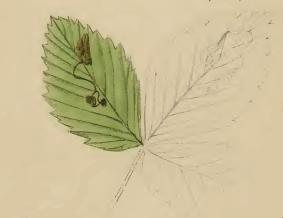 Stainton’s Natural History of the Tineina (1855–1873): Ectoedemia arcuatella mined leaf of Potentilla sterilis